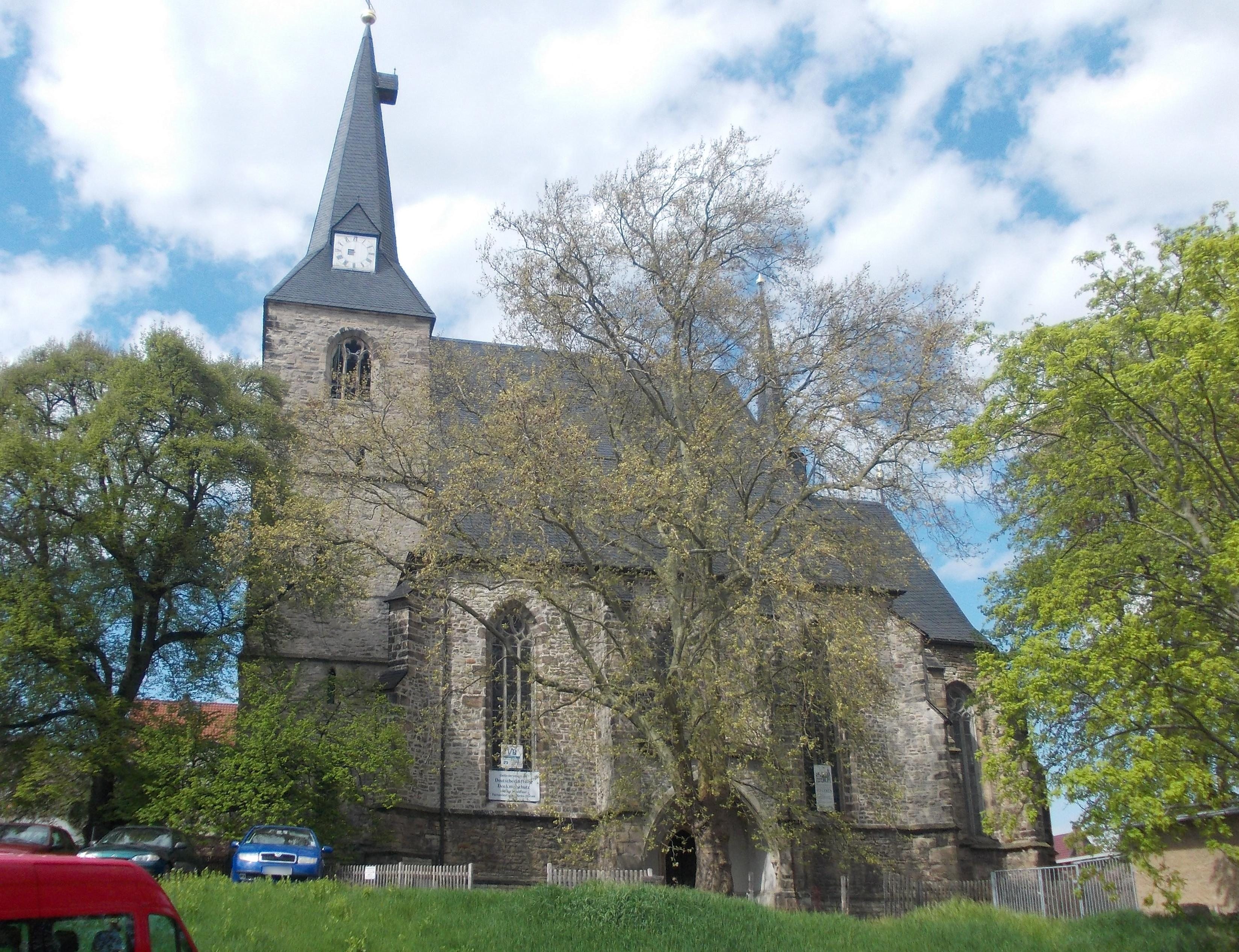 St. Nicholas' Church in Eisleben (Mansfeld-Südharz district, Saxony-Anhalt)